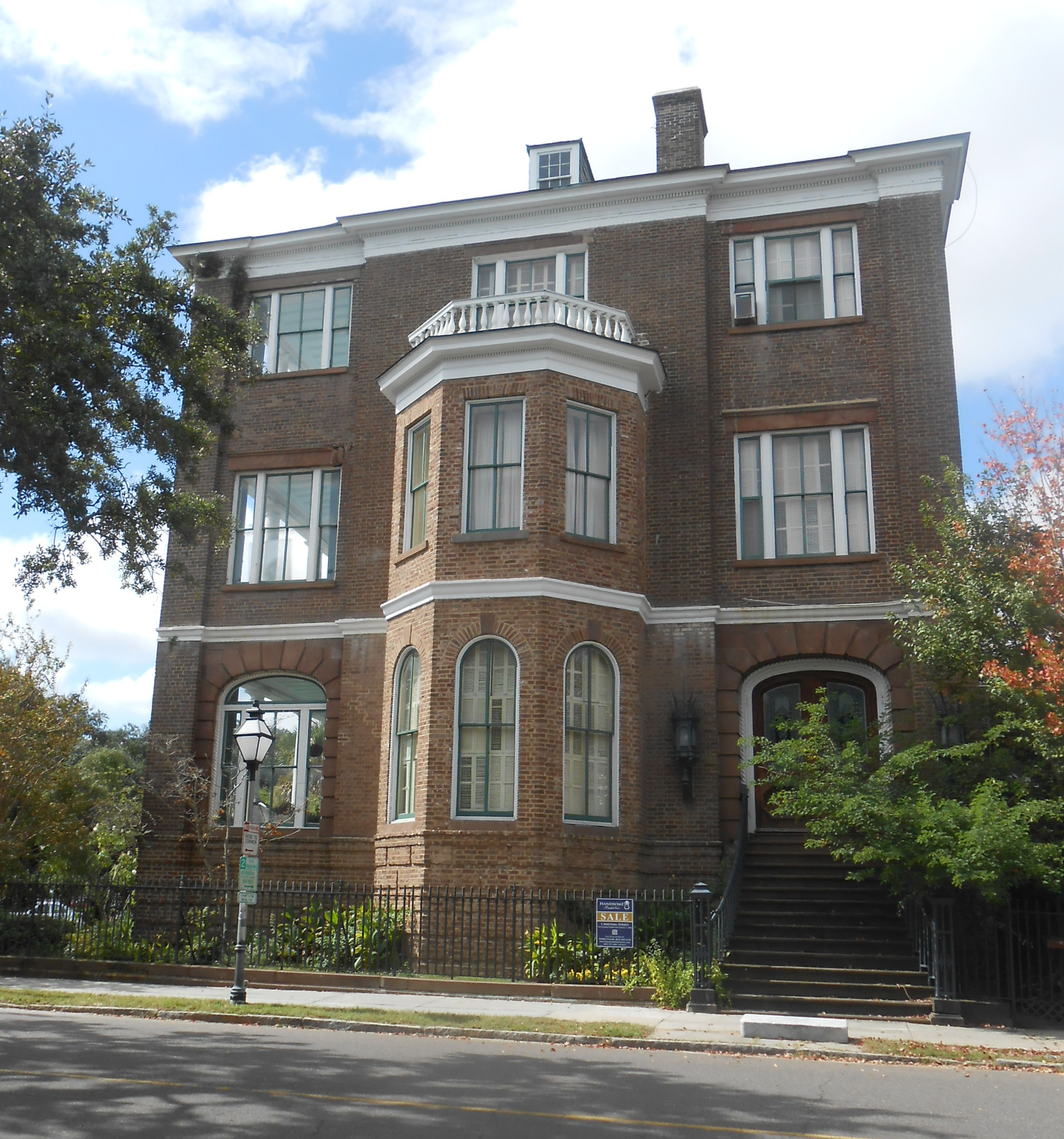 The c. 1846 George Robertson house is an excellent example of Greek Revival design at 1 Meeting St., Charleston, South Carolina.